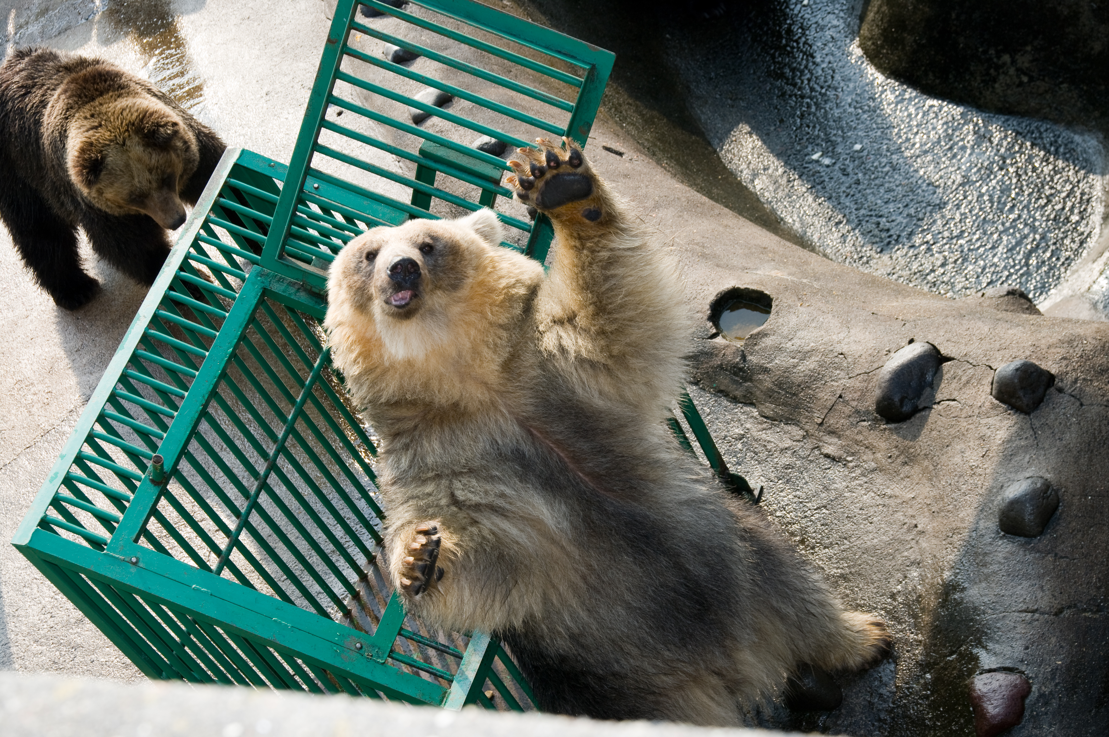 "KESAGAKE". Ezo Brown Bear with white hair. Noboribetsu bear park. Noboribetsu, Hokkaido, Japan.